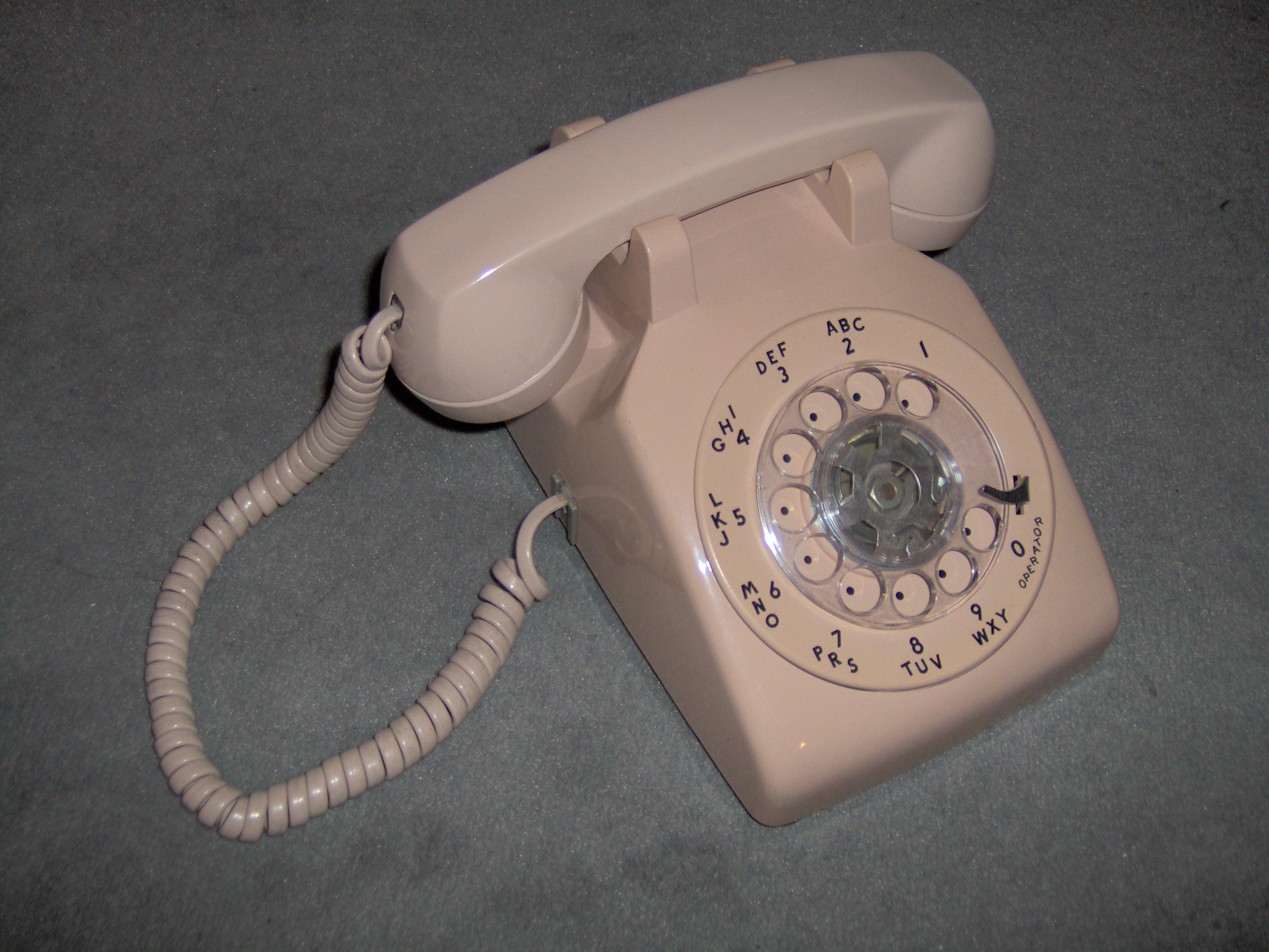 A Western Electric Model 500 dial phone. Self taken.